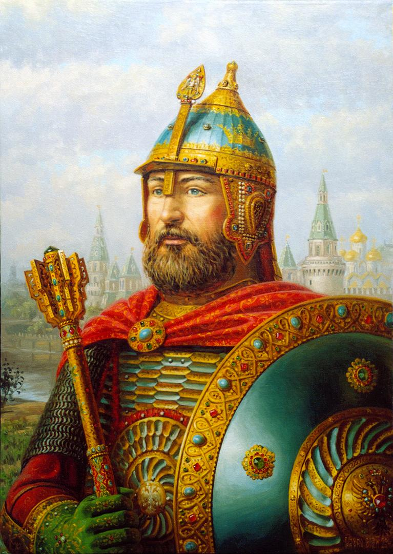 "Russian Tsar Alexei Mikhailovich Romanov. Fictional image"